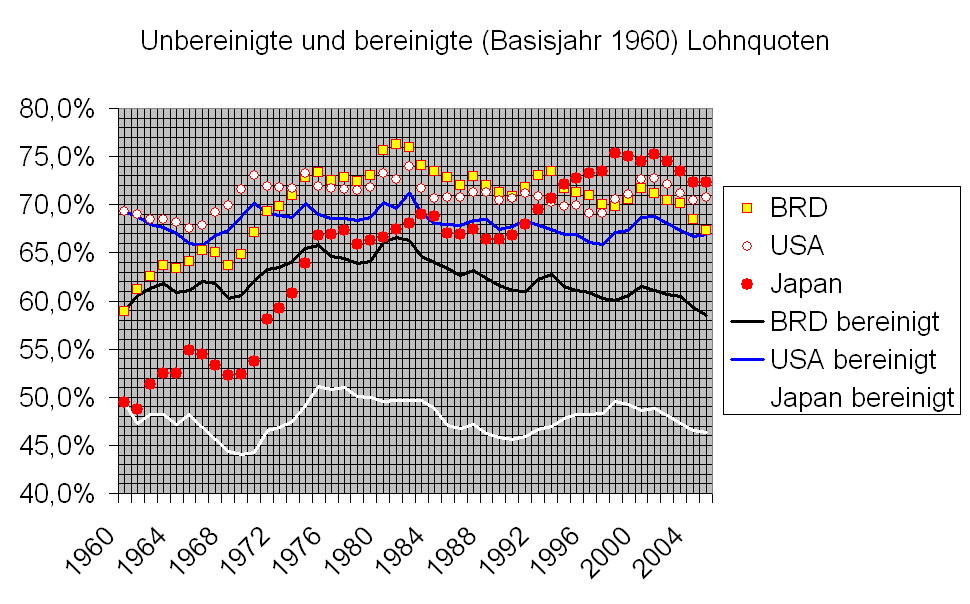 wage shares USA, Japan, FRG